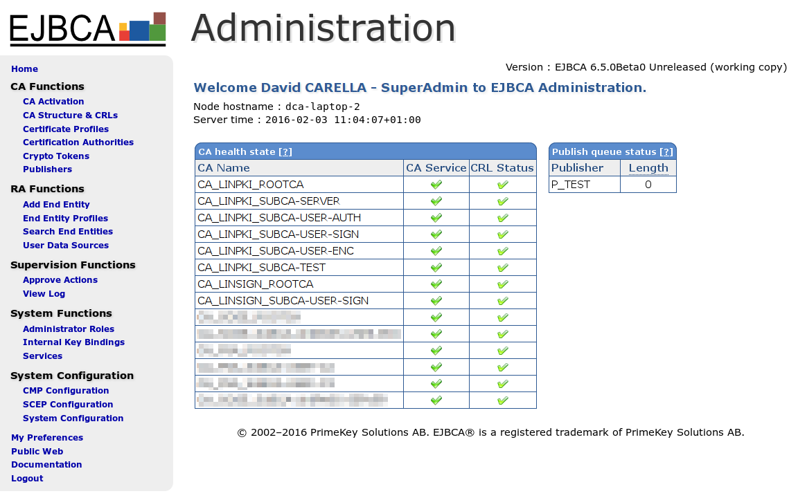 Screen shot of the web administration console of EJBCA.